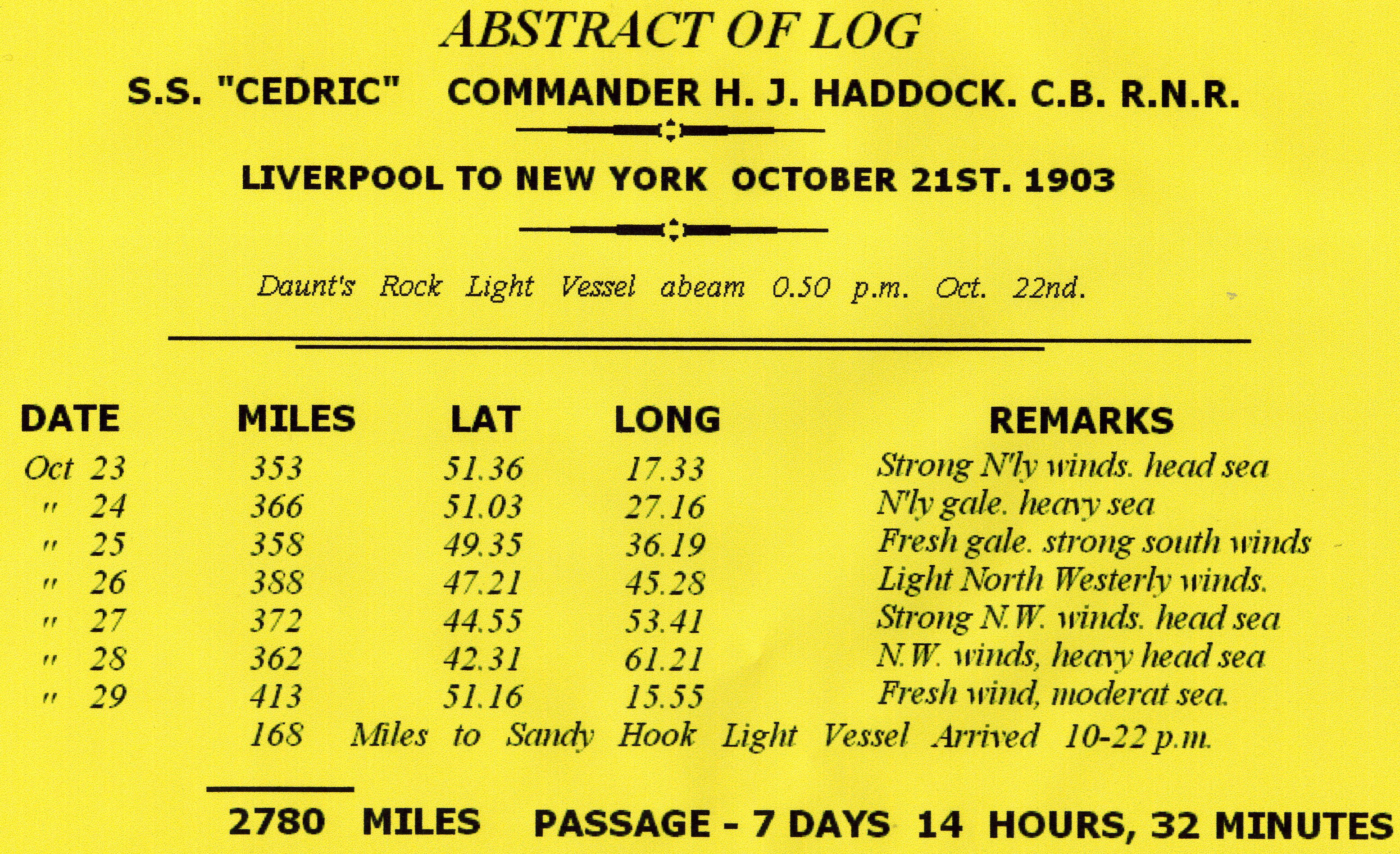 A Digital Transcribed copy of the log for the Cedric